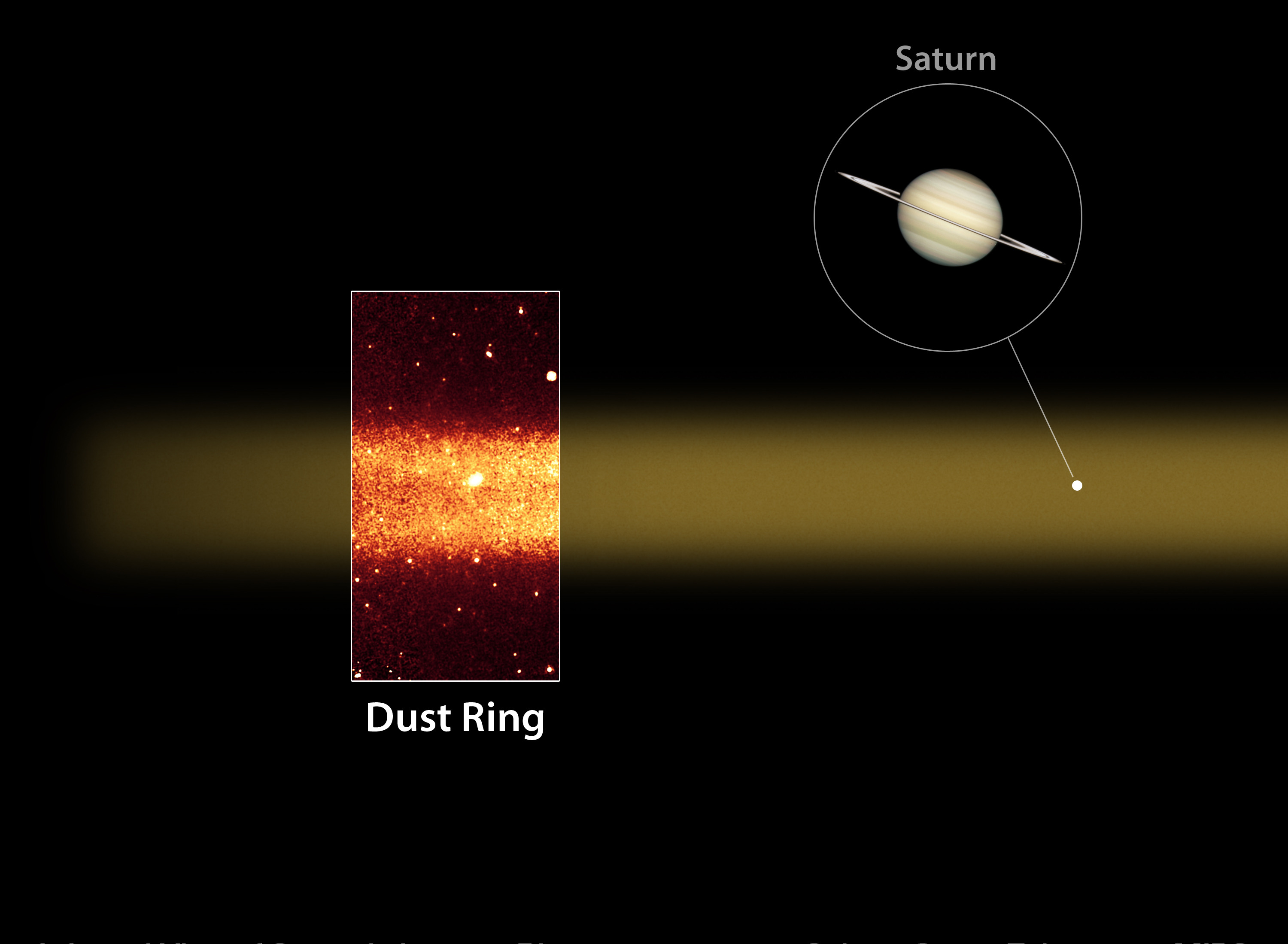 This diagram highlights a slice of Saturn's largest ring. The ring (red band in inset photo) was discovered by NASA's Spitzer Space Telescope, which detected infra-red light, or heat, from the dusty ring material. Spitzer viewed the ring edge-on from its Earth-trailing orbit around the sun.